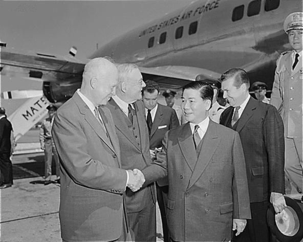 U.S. President Dwight D. Eisenhower and Secretary of State John Foster Dulles (from left) greet South Vietnamese President Ngo Dinh Diem at Washington National Airport. 05/08/1957 ARC Identifier: 542189 Item from Record Group 342: Records of U.S. Air Force Commands, Activities, and Organizations, 1900 - 2000 Part of Series: Black and White Photographs of U.S. Air Force and Predecessors' Activities, Facilities, and Personnel, Domestic and Foreign, 1930 - 1975